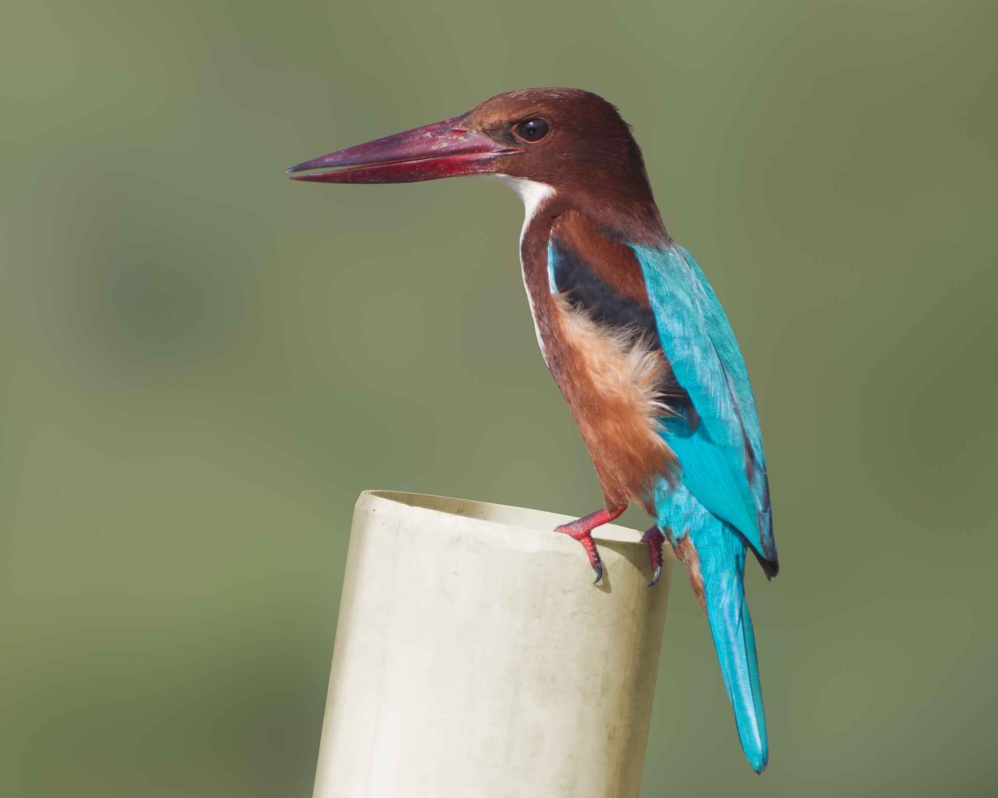 White-throated Kingfisher (Halcyon smyrnensis), Laem Pak Bia, Petchaburi, Thailand